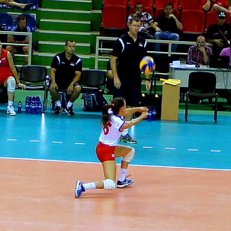 Tijana Milojevic In Action During 2015 Tbilisi Youth Olympic Final